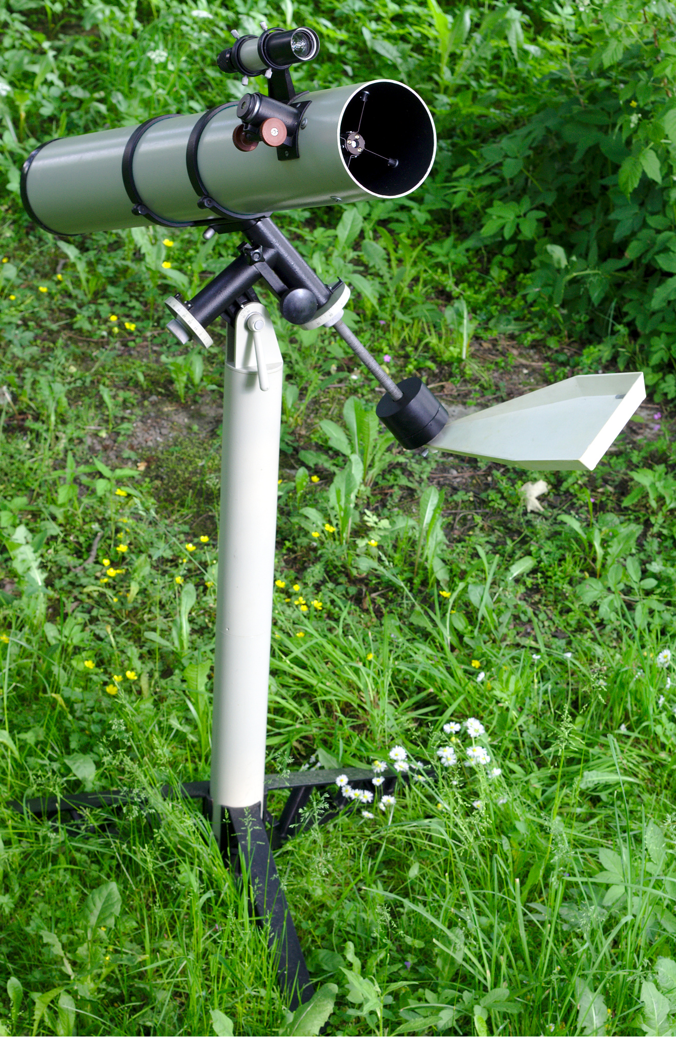 TAL 1 MIZAR astronomical telescope (110/805mm).